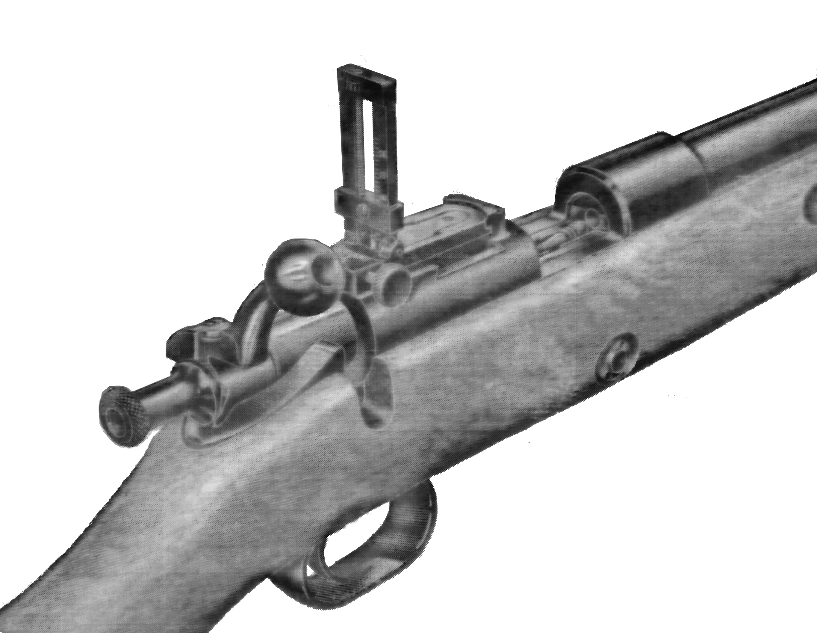 Closeup of the original Model 52 action.